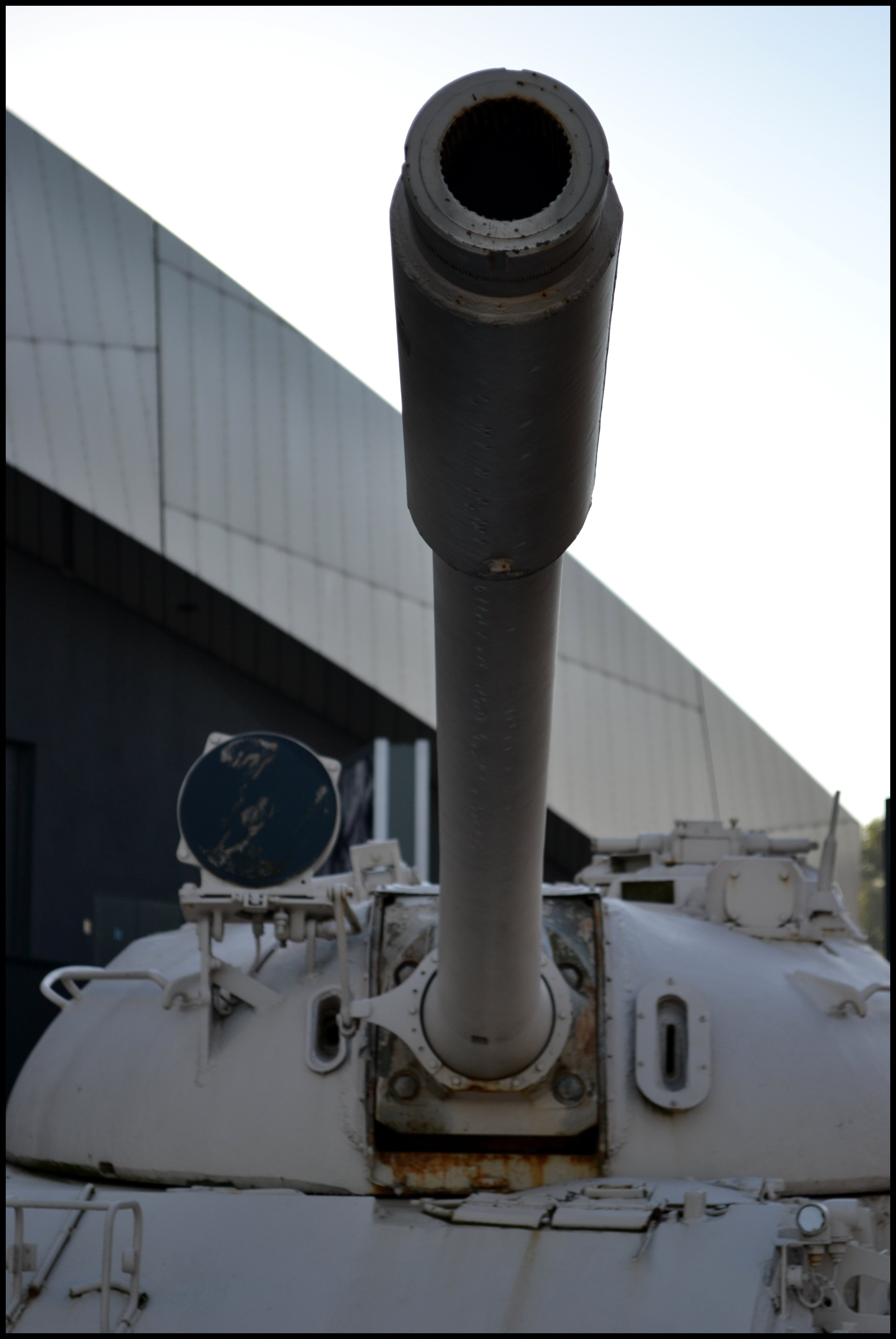 Sits in the carpark at IWM Manchester